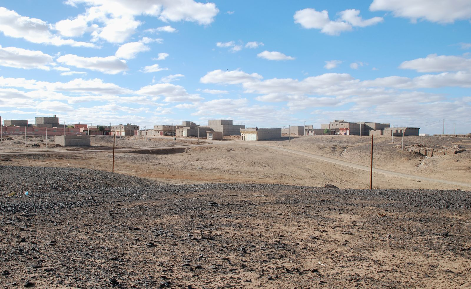 Smara, Western Sahara, northeastern suburb